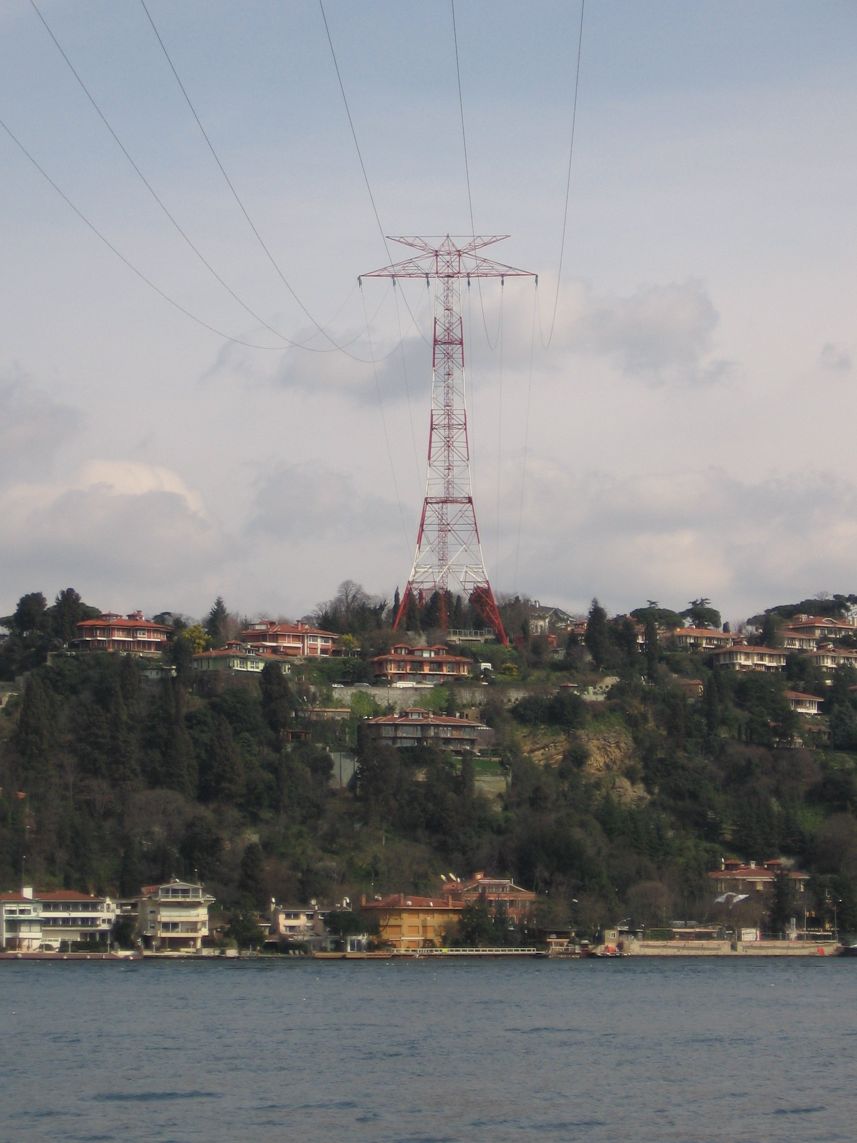 154 kV Bosphorous crossing - looking E from Arnavutköy